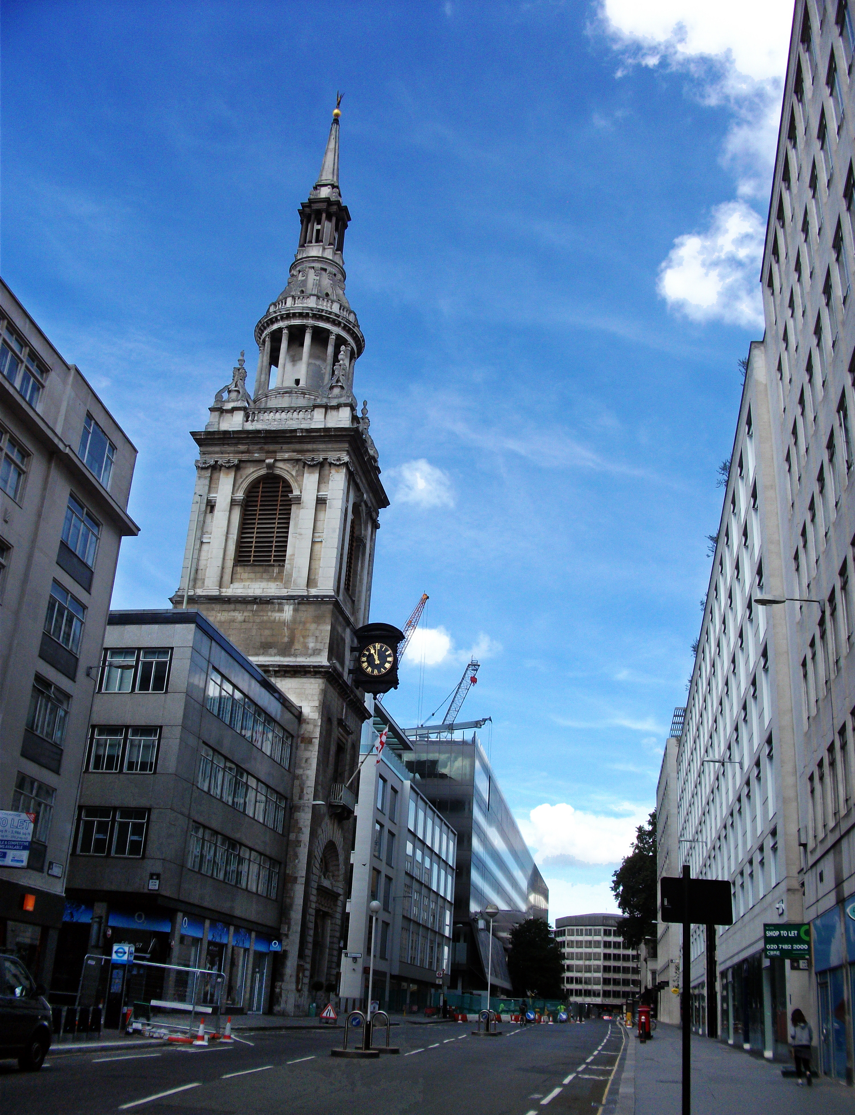 View along Bow Lane, looking toward Cheapside, St Mary-le-Bow prominent on the left.